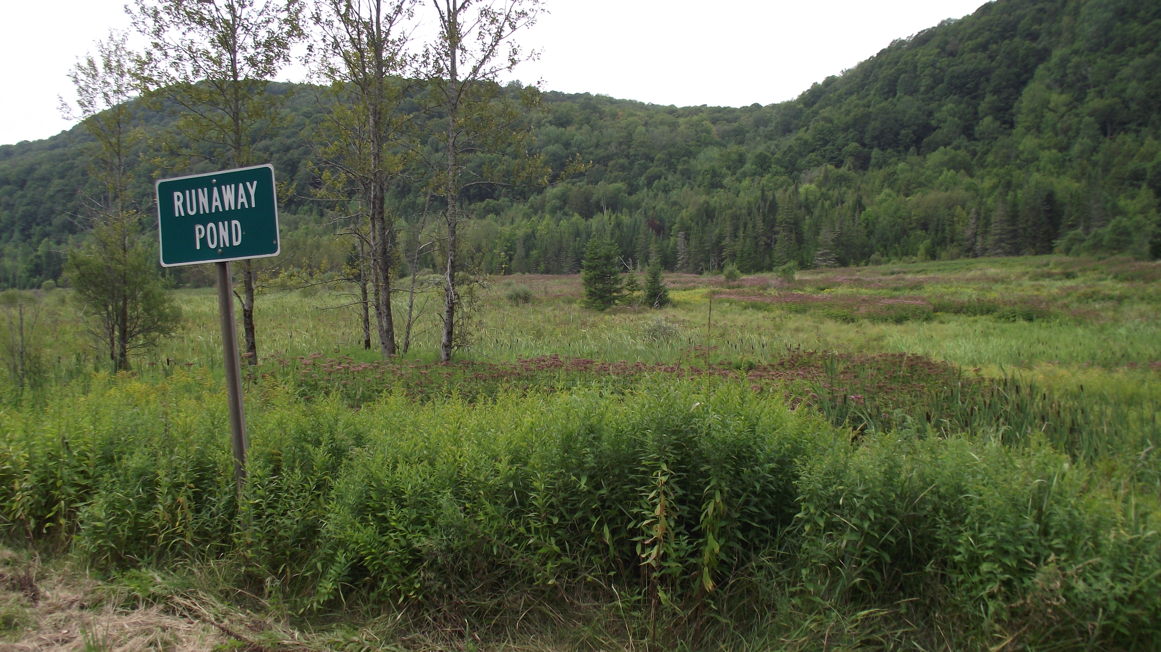 Runaway Pond in Glover Vermont. Remains of an engineering error in 1810 which led to the draining of a pond containing almost 2 billion gallons of water. See Runaway_pond